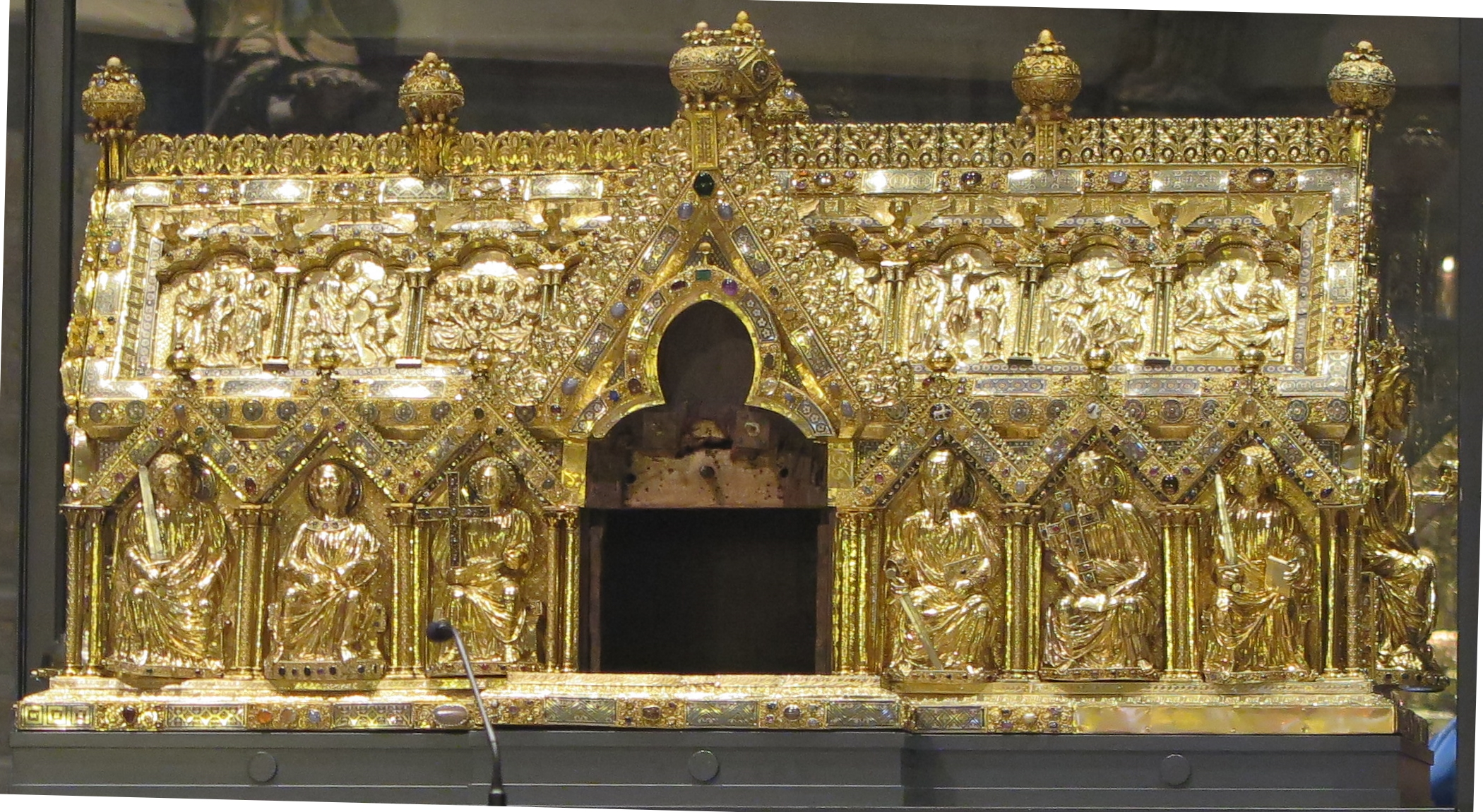 The open Shrine of Mary (Marienschrein) in Aachen Cathedral during the Aachen Pilgrimage 2014.